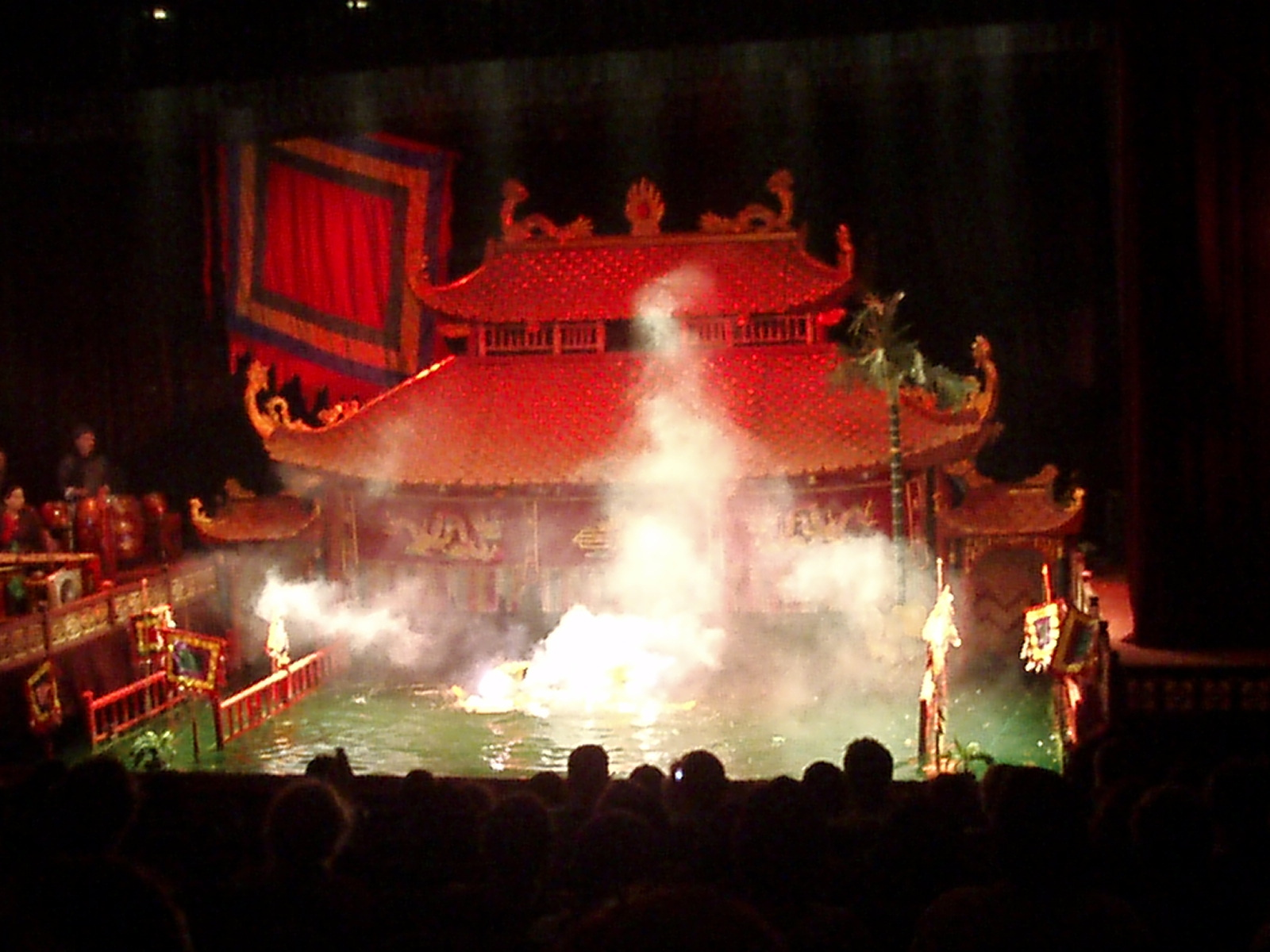 Thang Long Water Puppet Theatre.